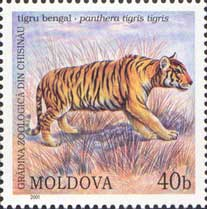 Stamp of Moldova